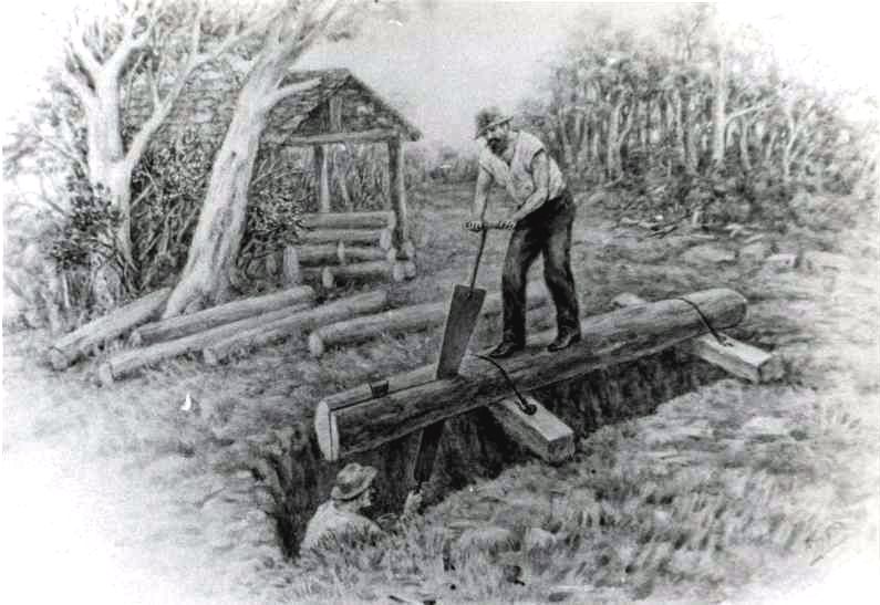 Woodcut print showing two men cutting a log into planks, Latrobe Photographic Collection, National Trust Tasmania